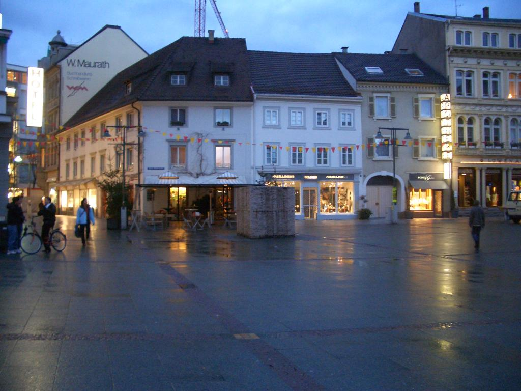 The old marketplace of the city of Lörrach.